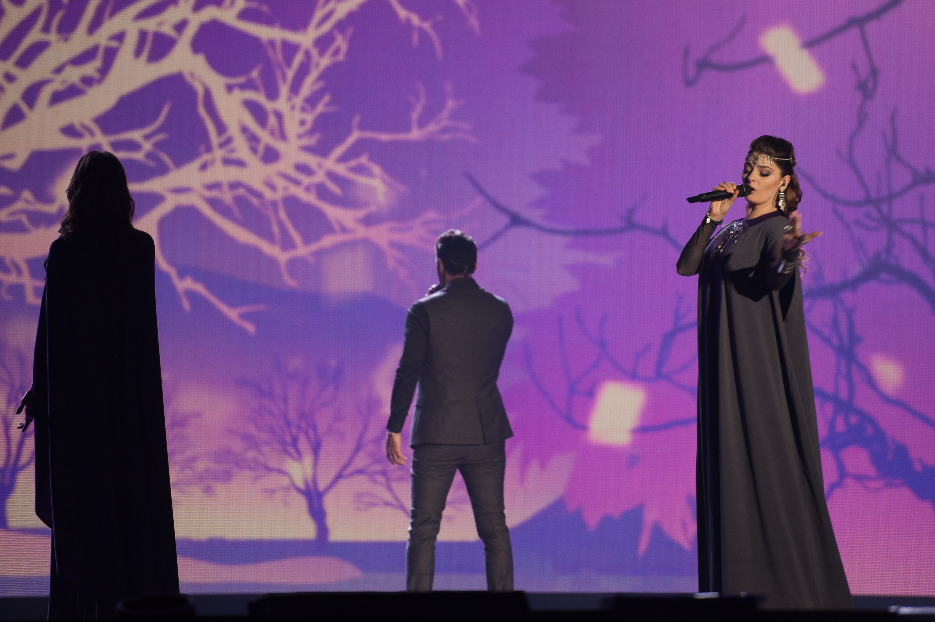 Eurovision Song Contest Vienna 2015: Genealogy, Armenia